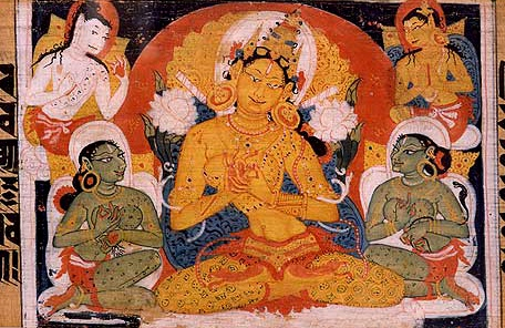 Painting of Prajnaparamita personified. Sanskrit Astasahasrika Prajnaparamita Sutra manuscript. Nalanda, Bihar, India. Circa 700-1100 CE.